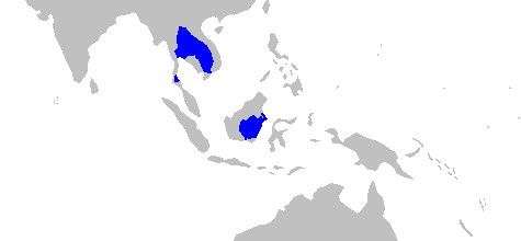 Distribution of Himantura polylepis. Based on [1], modified with recent data.